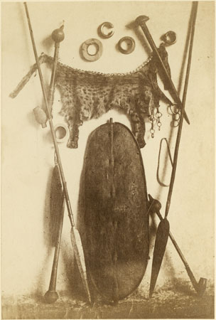 Shilluk material culture